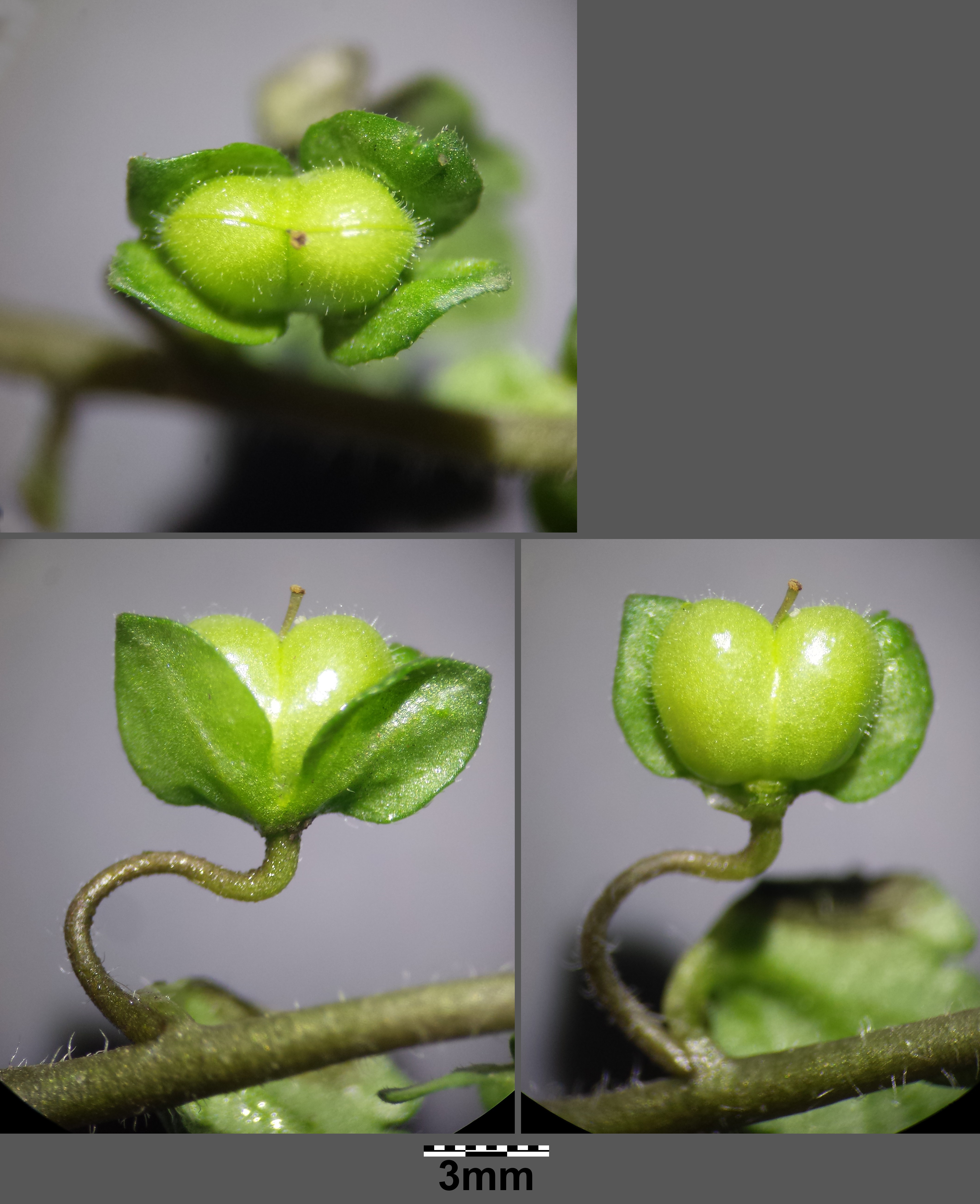 Fruit with stipe At the bottom right sepals removed Taxonym: Veronica polita ss Fischer et al. EfÖLS 2008 ISBN 978-3-85474-187-9 Location: Pragerstraße/O'Brien-Gasse/Am Nordwestbahnhof, Vienna-Floridsdorf - ca. 160 m a.s.l. Habitat: abandoned allotment